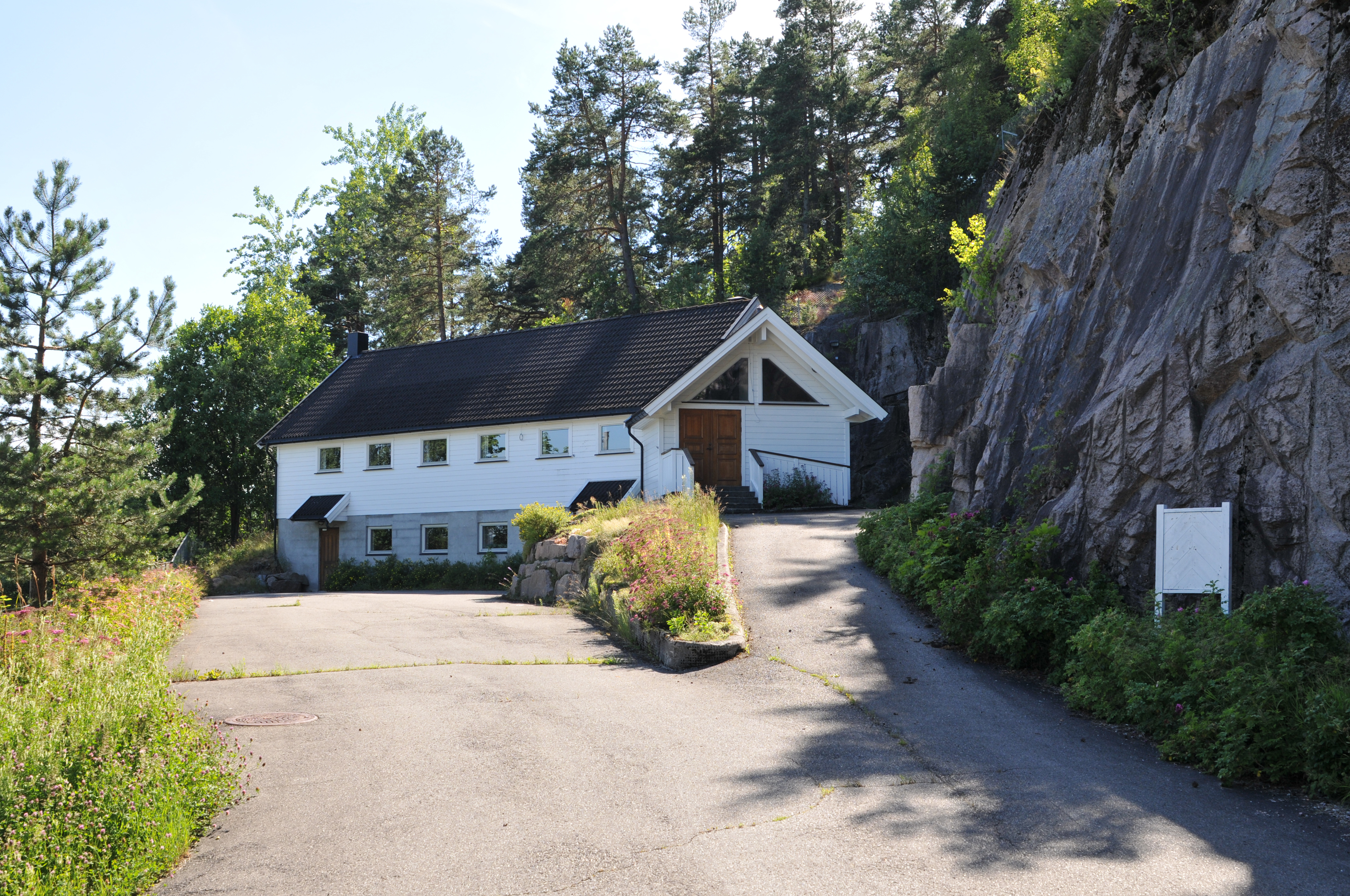 Heggedalsveien 289 in Heggedal in Asker municipality in Akershus county in Norway.